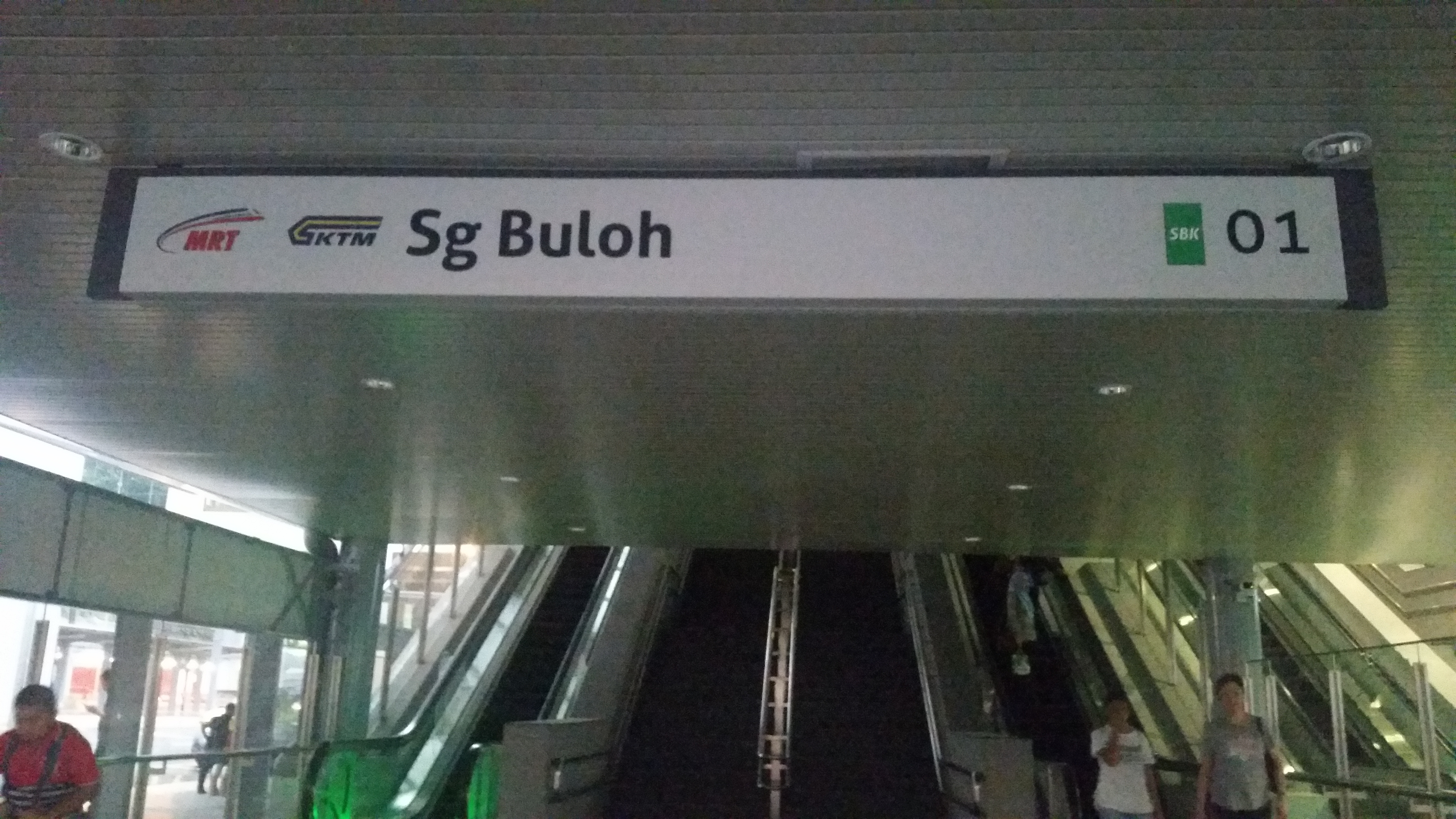 The signboard for Sungai Buloh Railway Station, entrance B.